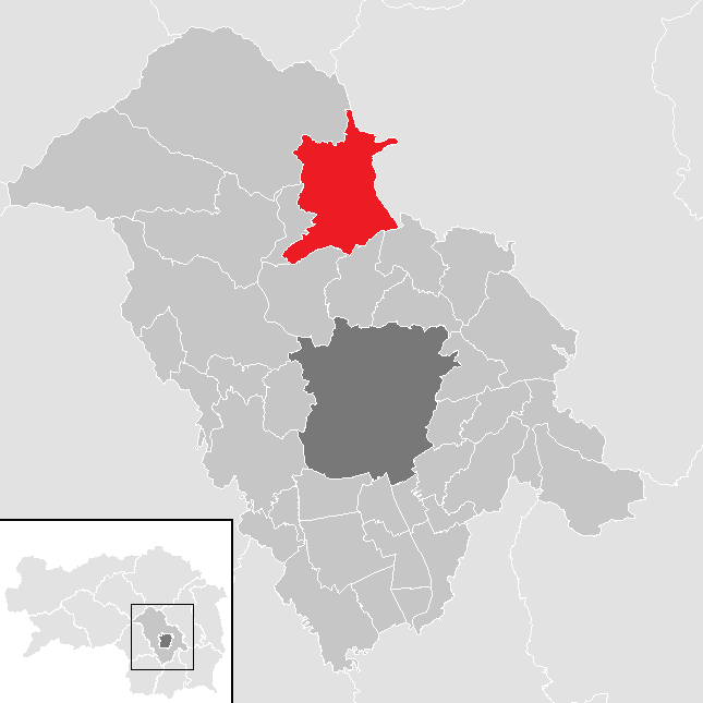 District Graz-Umgebung, Styria